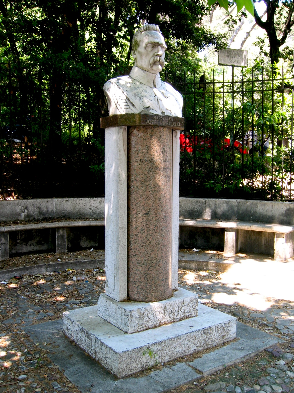 The Bust of the Pierwszy Marszałek Polski Józef Piłsudski in Rome, est. 1937